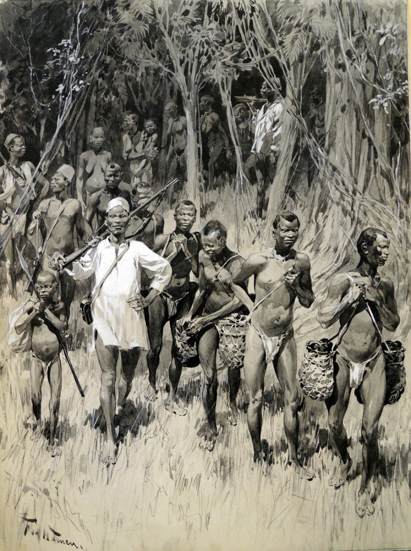 How the White Man Trades in the Congo, Bringing in Rubber and Hostages. Frederic de Haenen, Gouache and ink wash, 1906. Graphic Arts Collection.